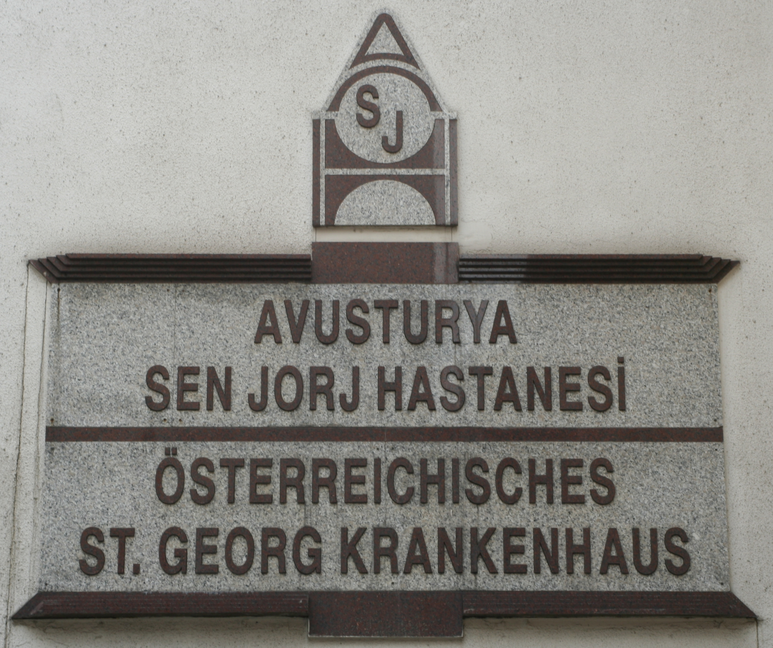 the St. Georgs Krankenhaus, next to St. Georgs Kolleg (austrian school in Istanbul)